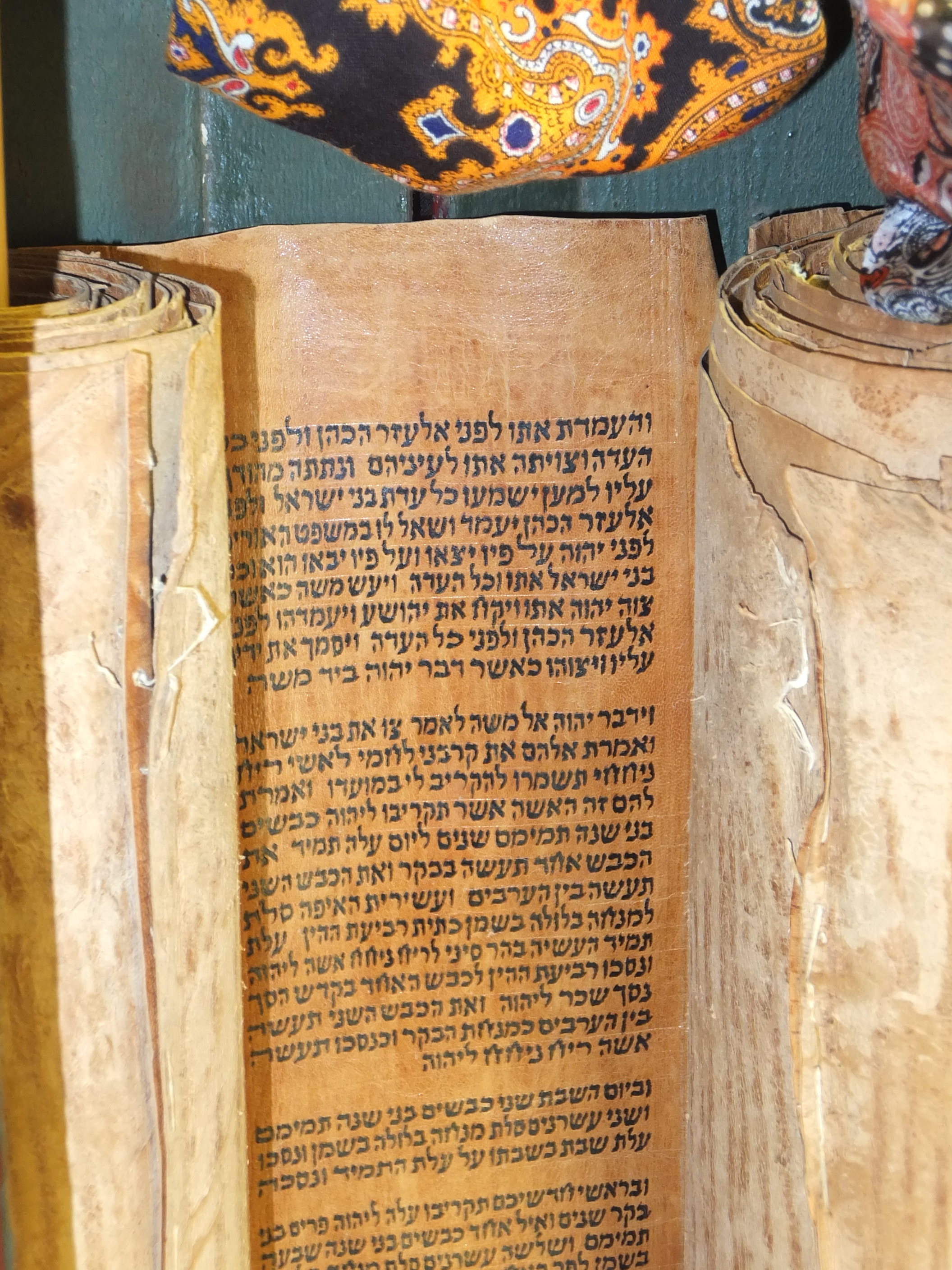 A sheet of leather parchment containing the words of the Law (Torah)